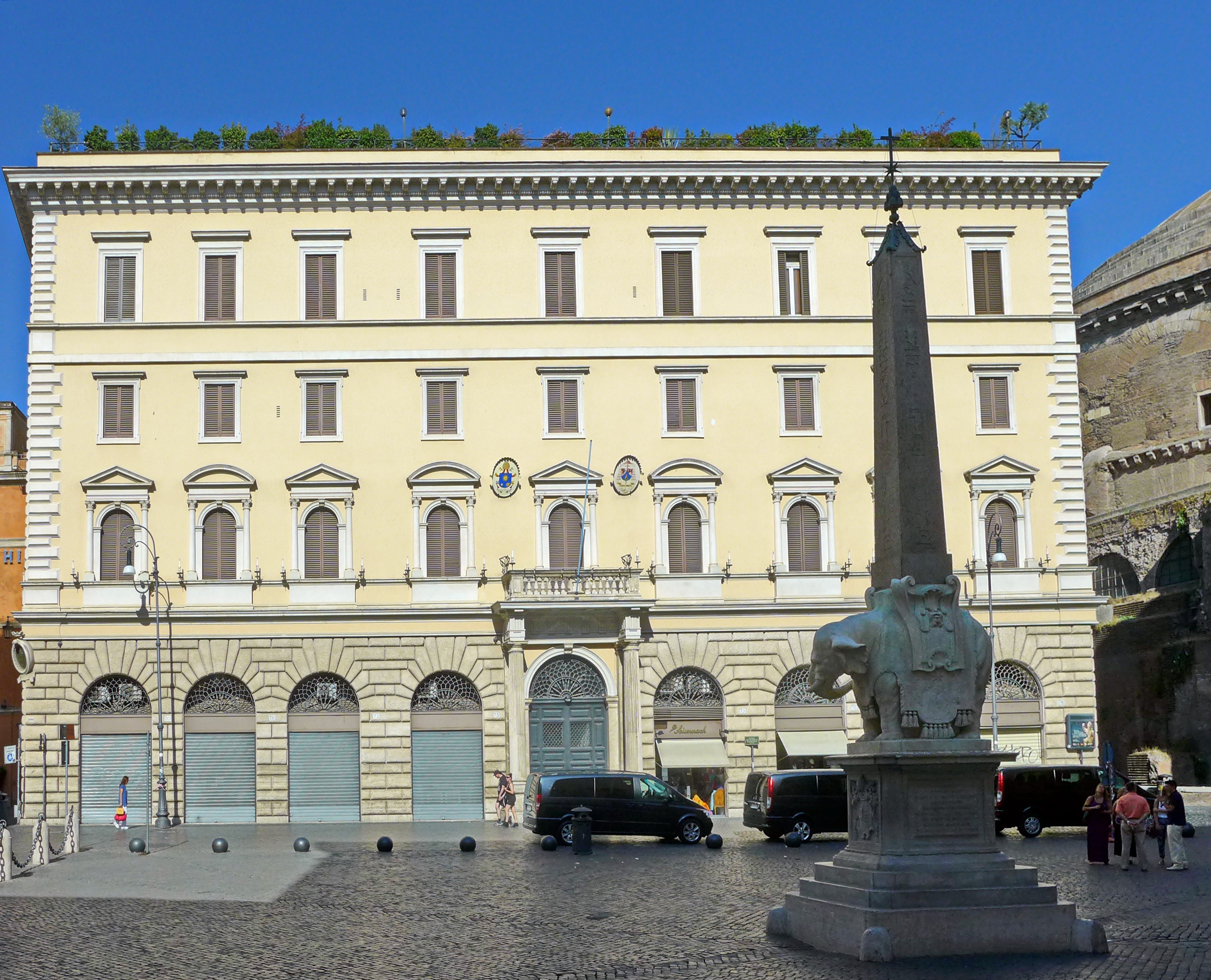 Piazza della Minerva (Rome), Accademia ecclesiastica